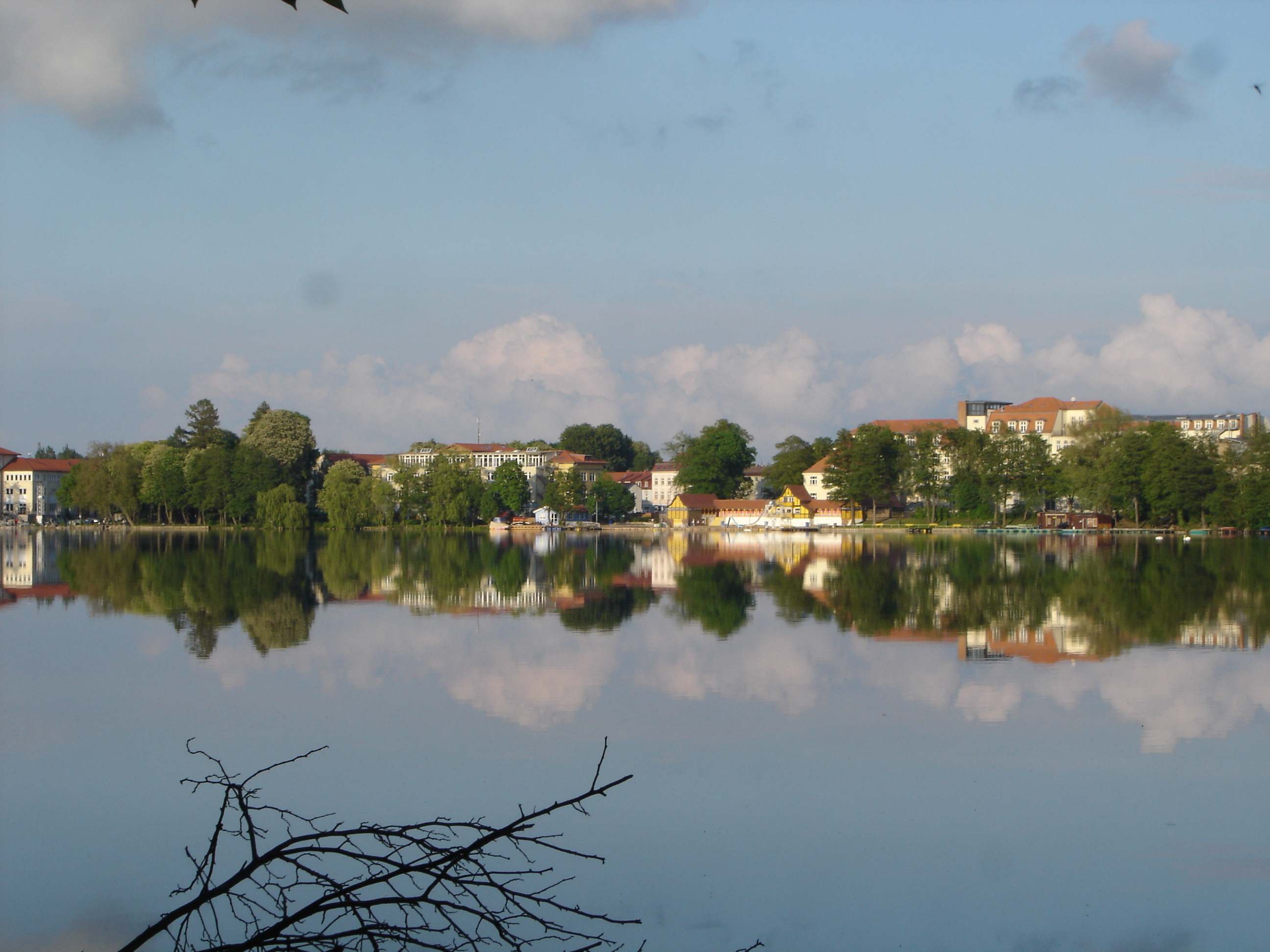 Strausberg near Berlin seen from the opposite side of the Straussee.